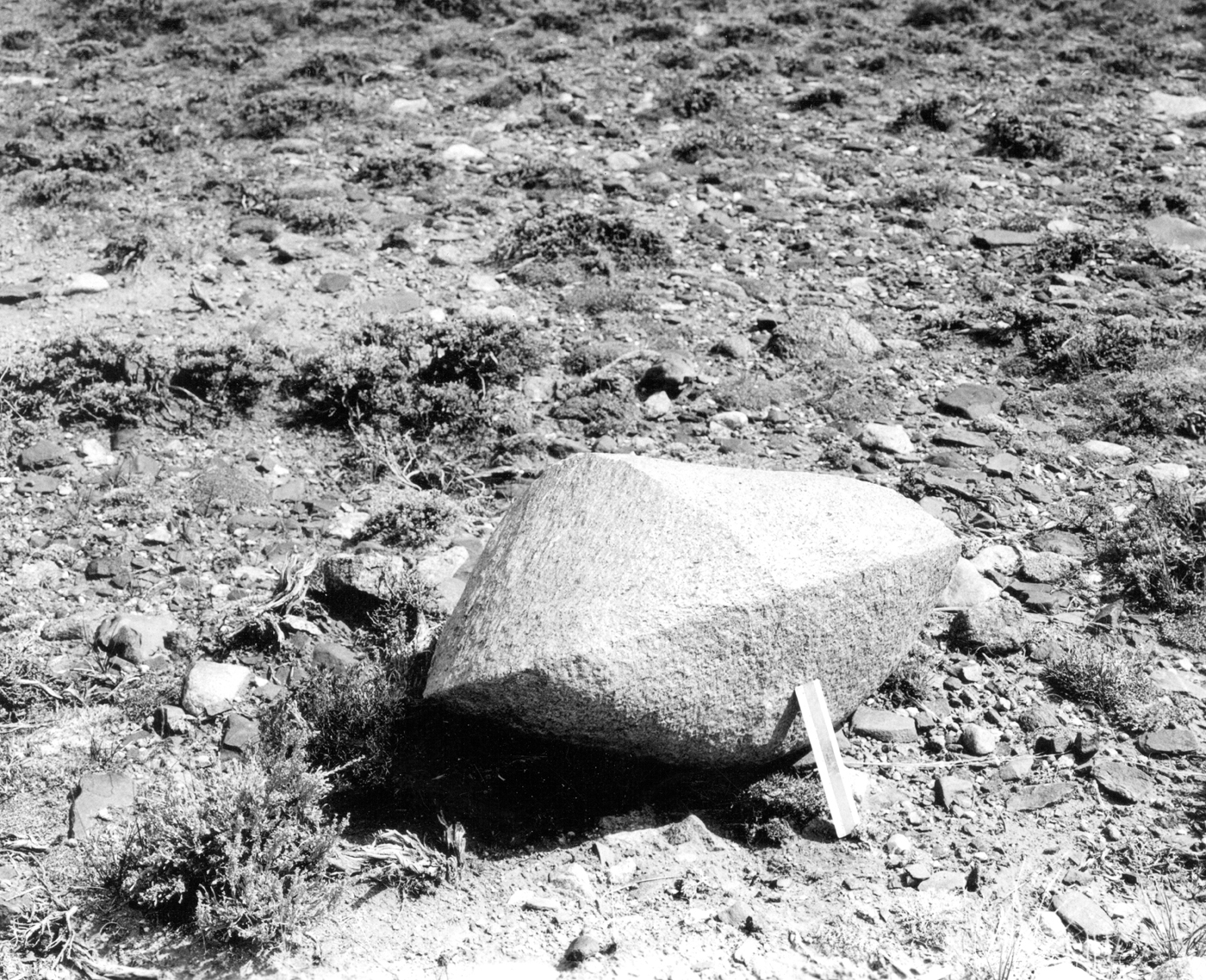 Unusually large dreikanter of granite on the Lander road a few miles south of Pacific Springs, Sweetwater County, Wyoming.